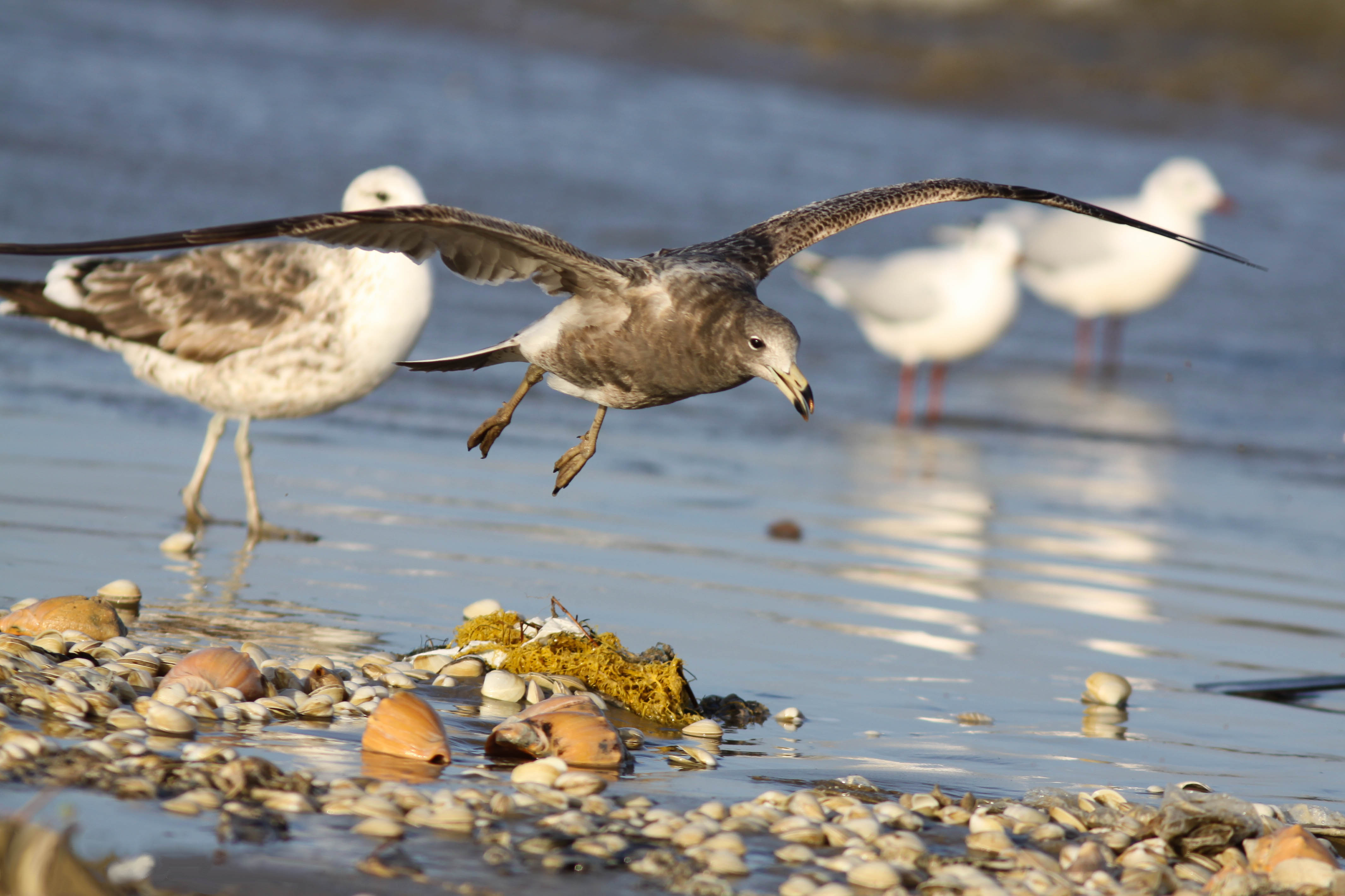 A juvenile Olrog’s Gull (Larus atlanticus); in the background a second winter Kelp Gull and two Grey-headed Gulls.